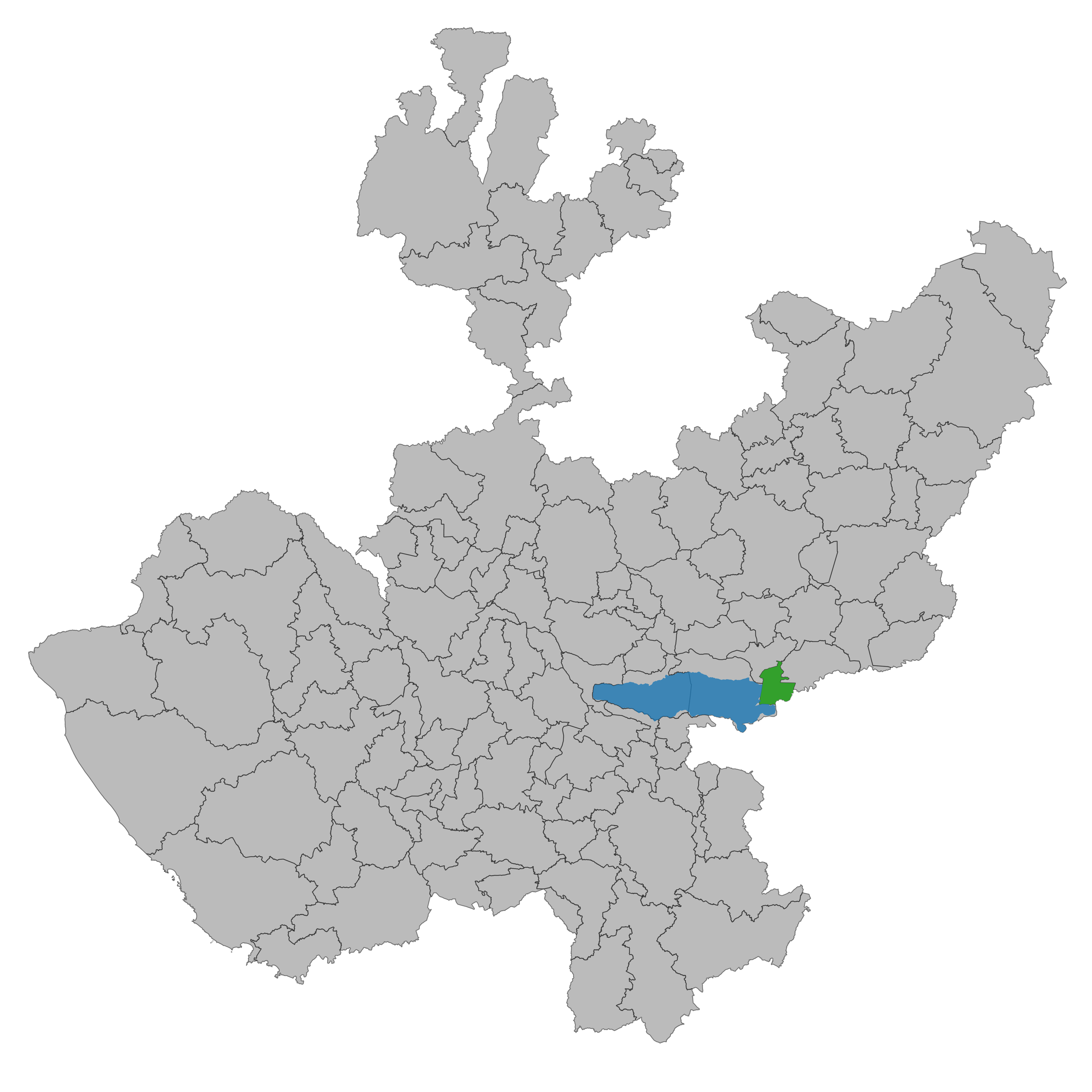 Municipality of Jalisco. Prepared with the software QGIS version 2.8.2 Wien & with information of SCINCE 2010 version 05/2013